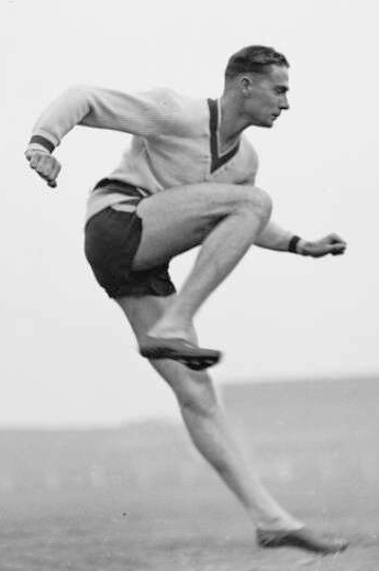 Athlete George Golding jumping over a hurdle whilst training for the Police Olympied, New South Wales, ca. 1930s